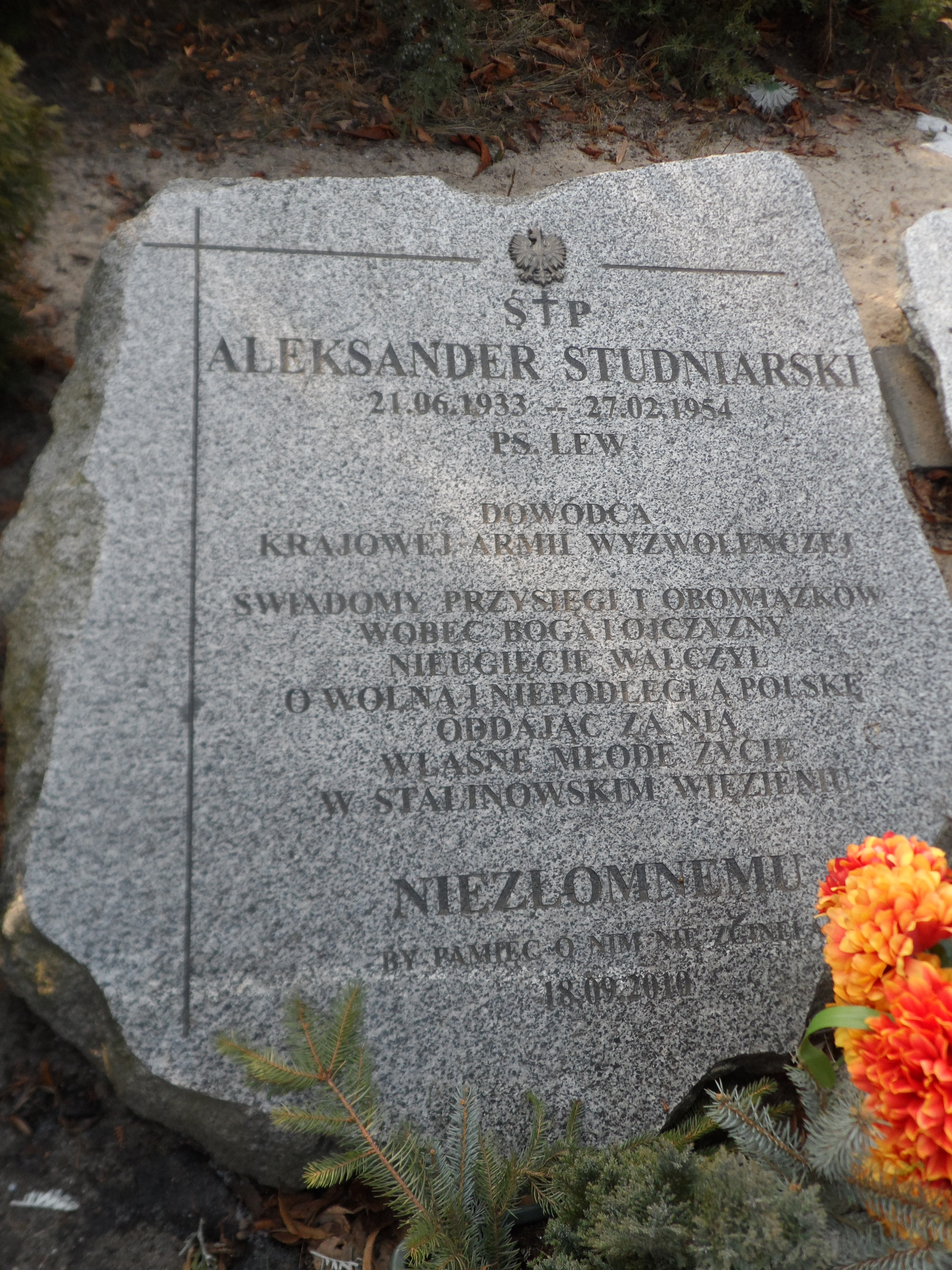 Memorial plaque commemorating the Alexander Studniarski (1933–1954), Polish political activist, youth leader of the anti-communist National Liberation Army; located at the Church Immaculate Concepted Blesed Virgin Mary in Główna, Poznań.